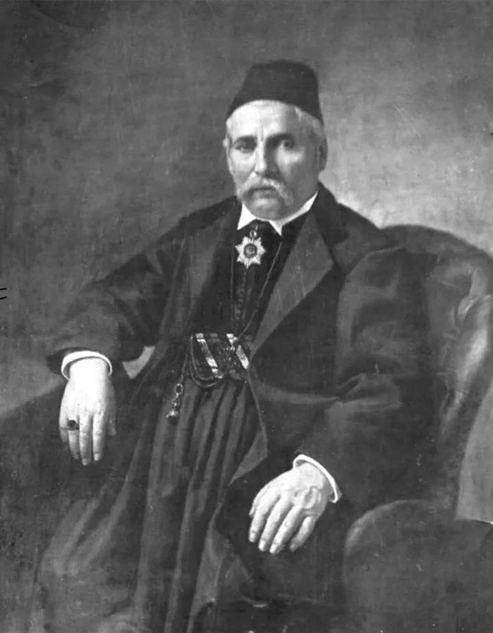 Al Mu'allim Butrus al-Bustani